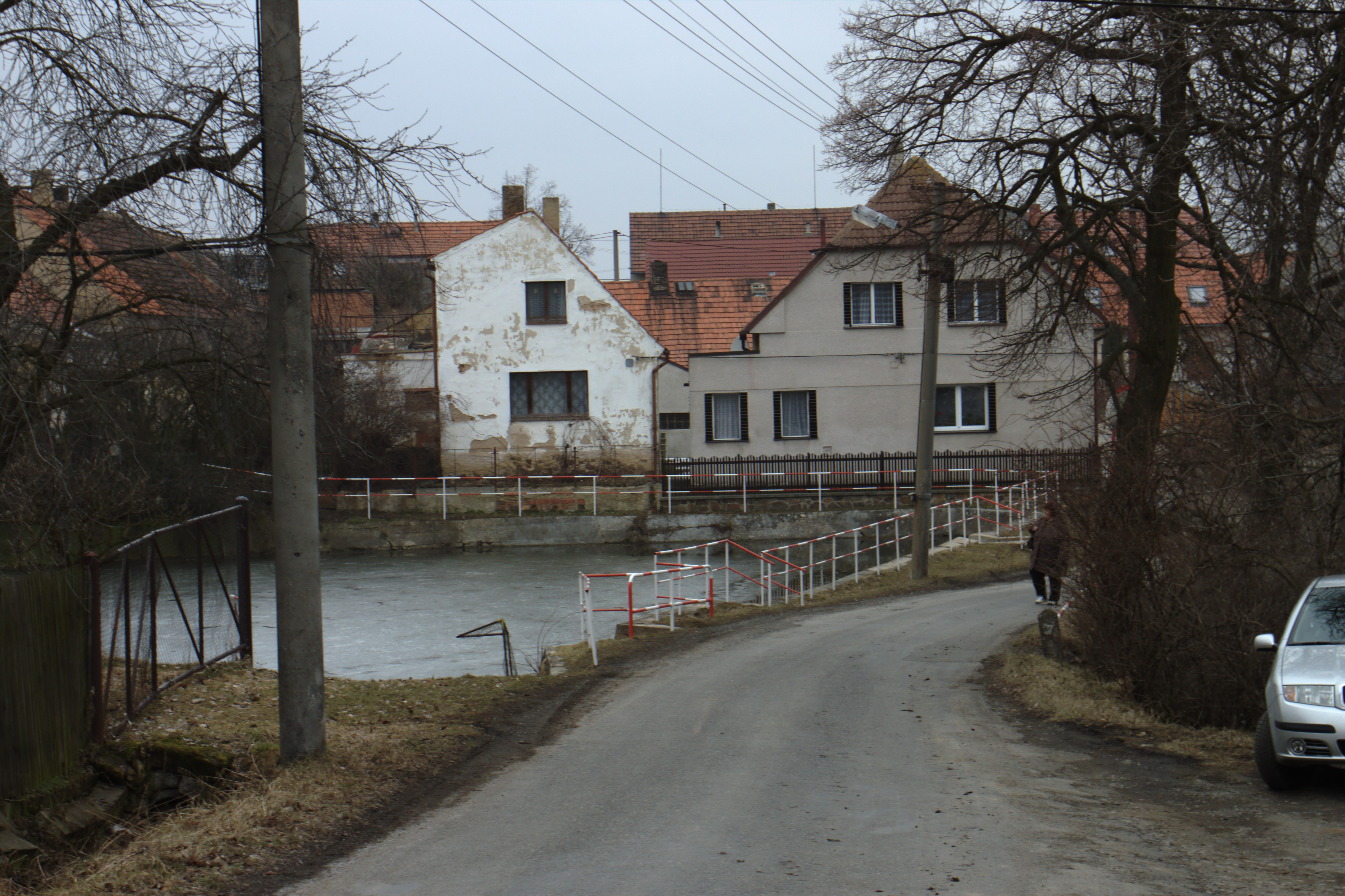 Central part of the town of příčina - main road with a pond. Central Bohemian Region, CZ